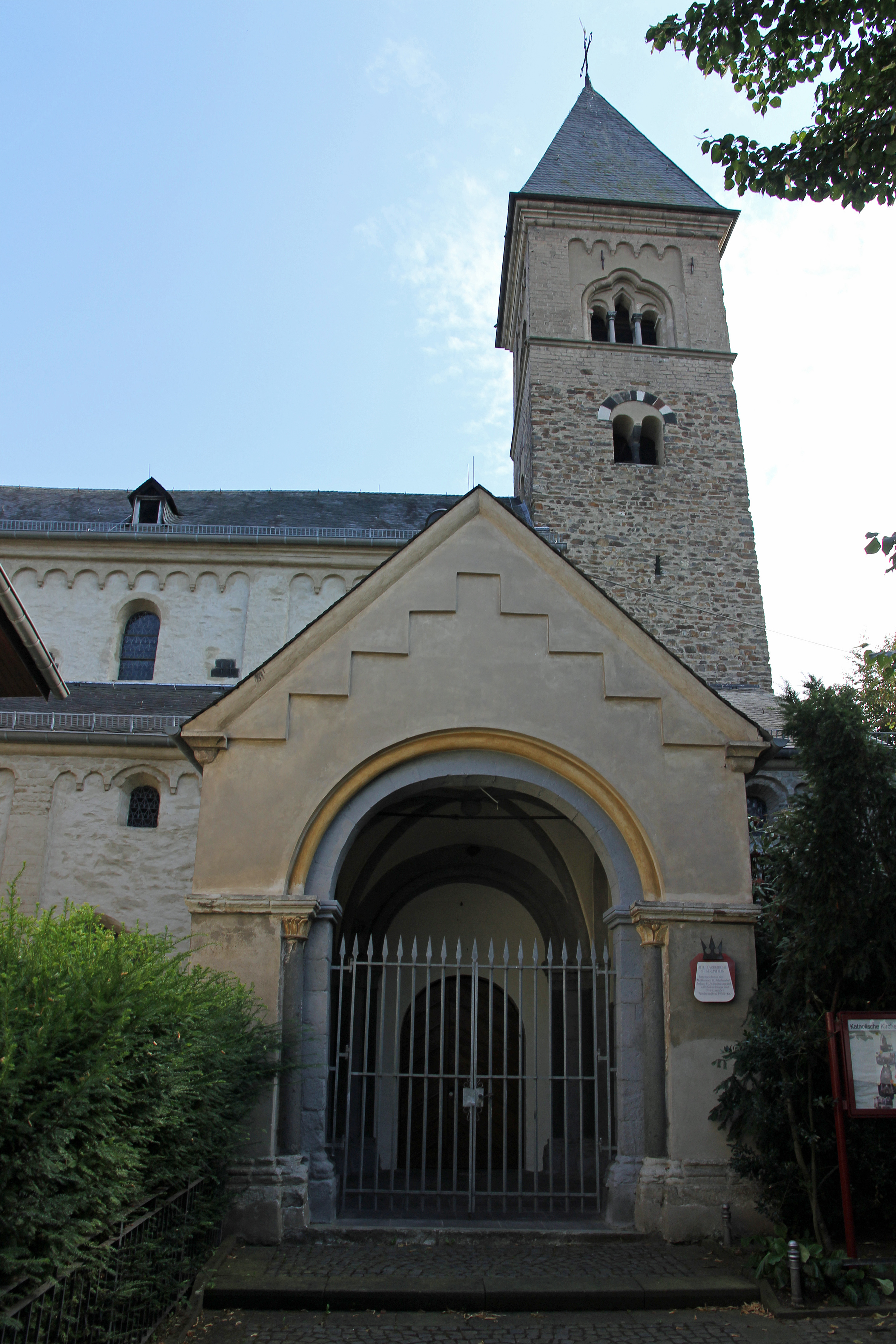 Old-St. Servatius church in Koblenz